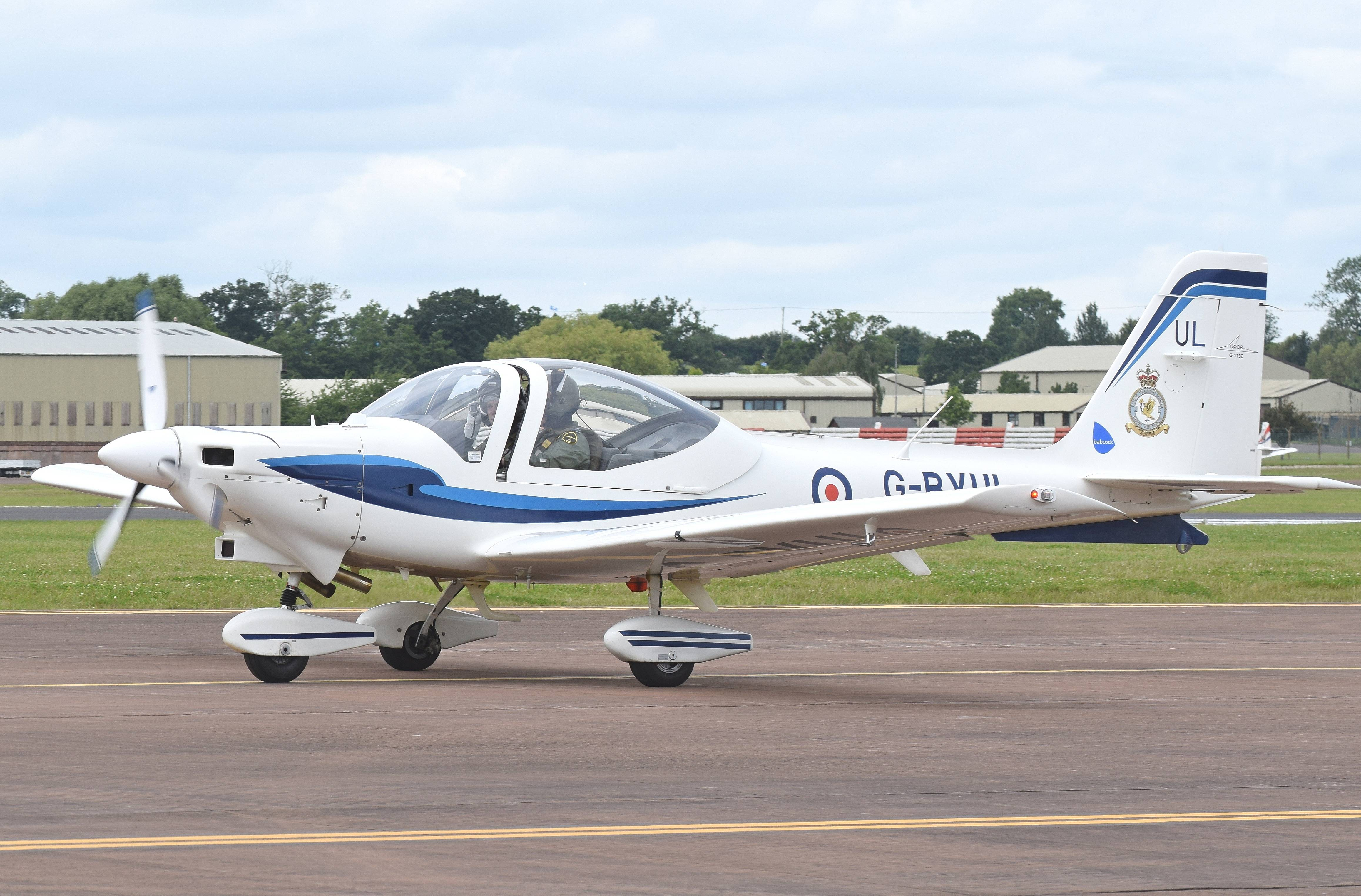 Grob Aircraft Grob G 115E (G-BYUL) of the Royal Air Force arrives at the 2016 Royal International Air Tattoo, RAF Fairford, England. In RAF service it known as the Tutor T1. Built 1999. Source=Own workMy own photo, taken with a Nikon D5300 DSLR and Tamron 70-300 lens.